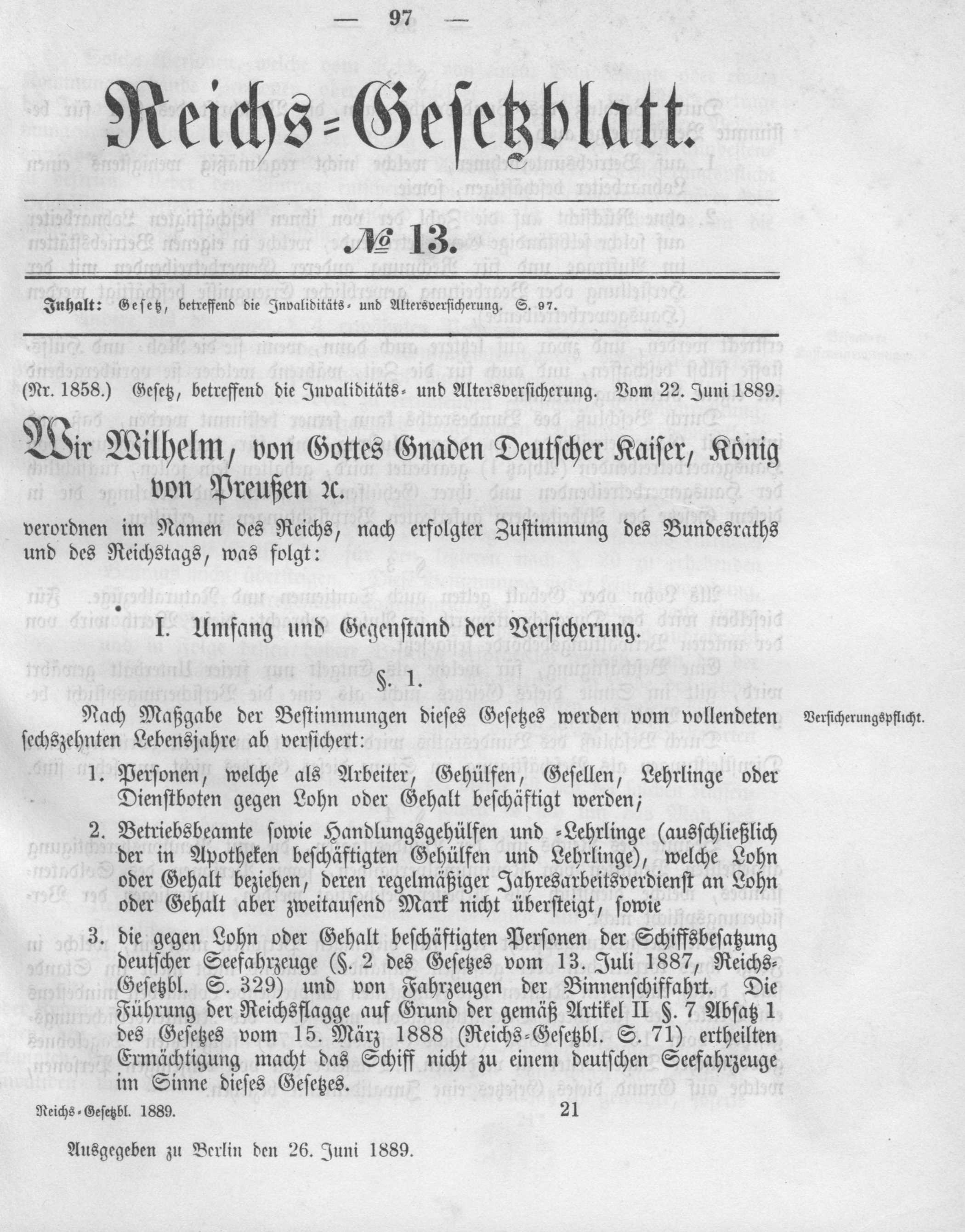 Scan from the Imperial Law Gazette of Germany, 1889